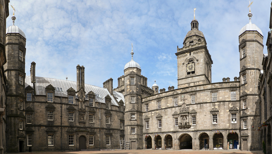 Edinburgh. Heriot's Hospital. Court